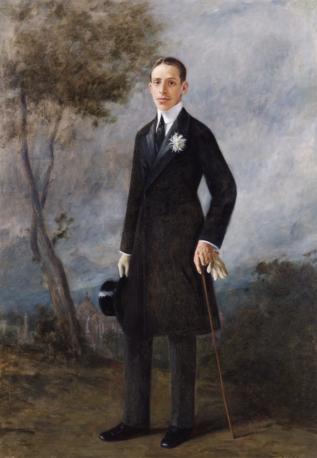 Portrait of King Alfonso XIII of Spain